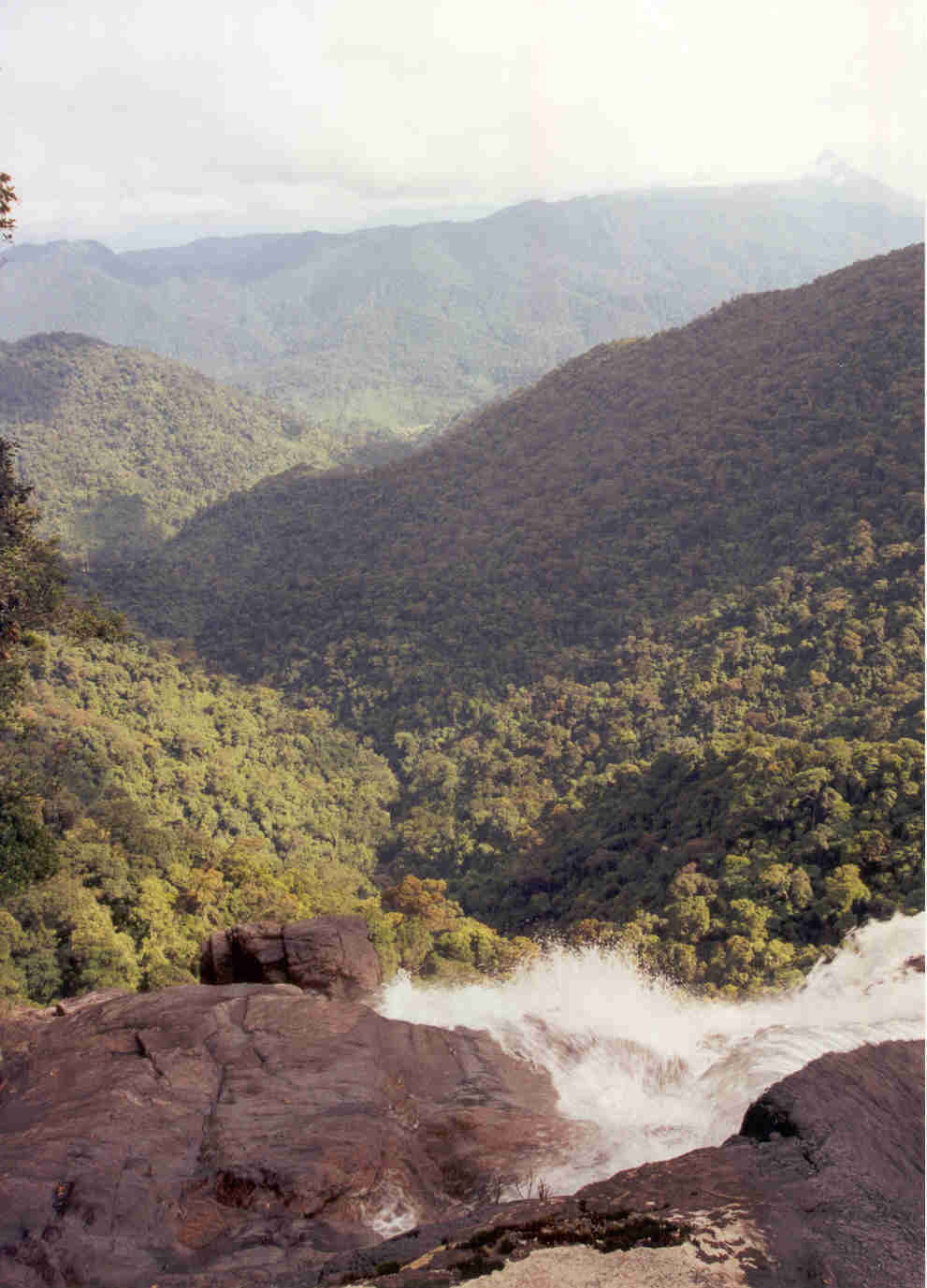 Bach Ma National Park, Vietnam